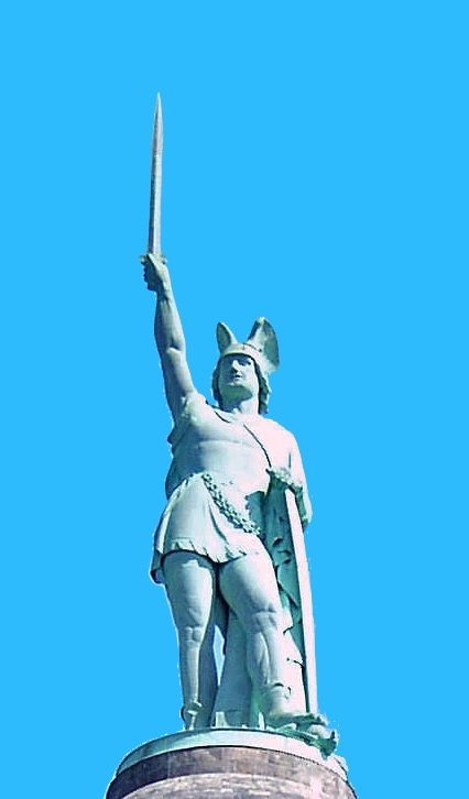 Monument of Hermann in Teutoburg Forest, Germany